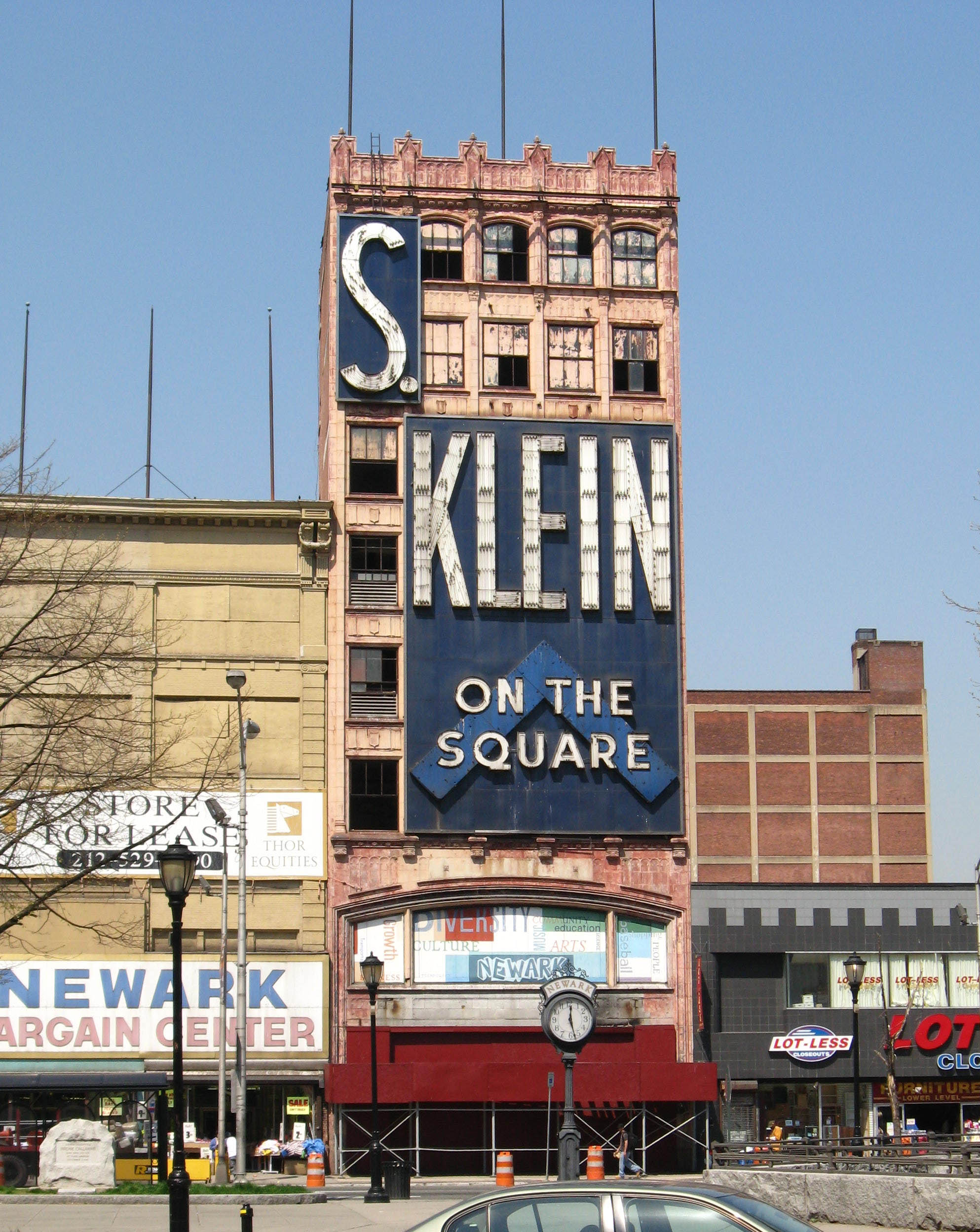 Looking west across Broad Street at S. Klein On the Square from, Military Park in Downtown Newark, sunny noon in springtime.